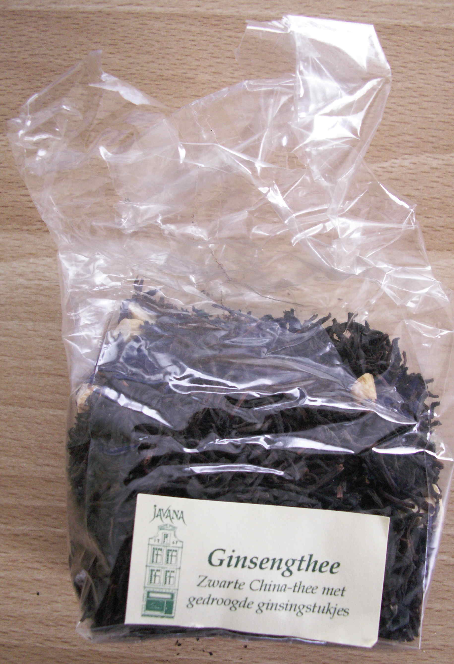 A picture of ginseng tea. Ginseng tea is a (relatively) powerful stimulant and can be used as a coffee substitute.